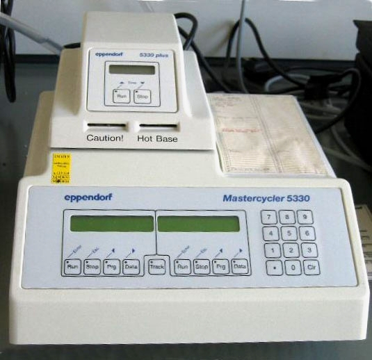 An Eppendorf Mastercycler 5330 thermal cycler for PCR and other applications